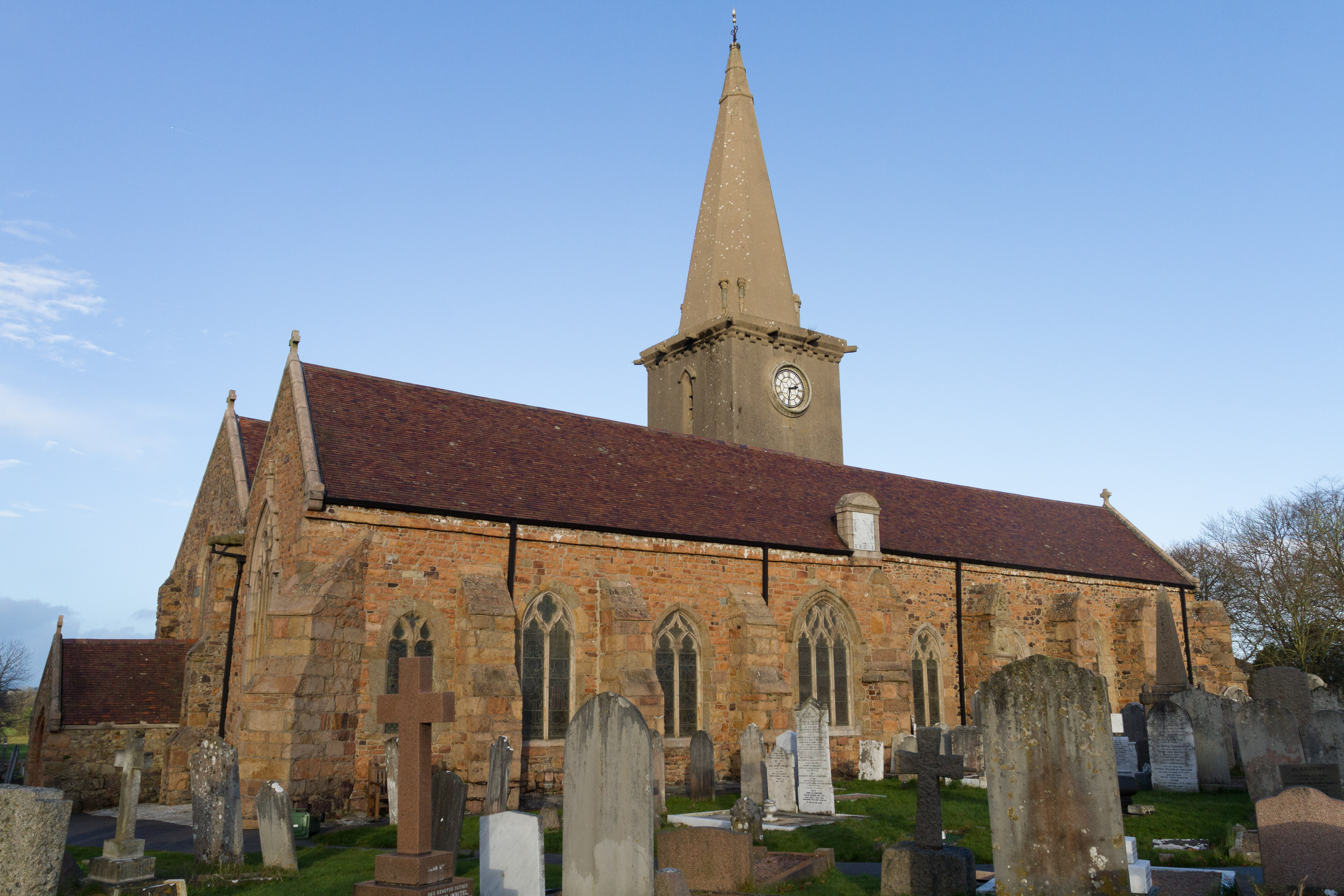 Exterior of Parish Church of St Martin, Jersey.